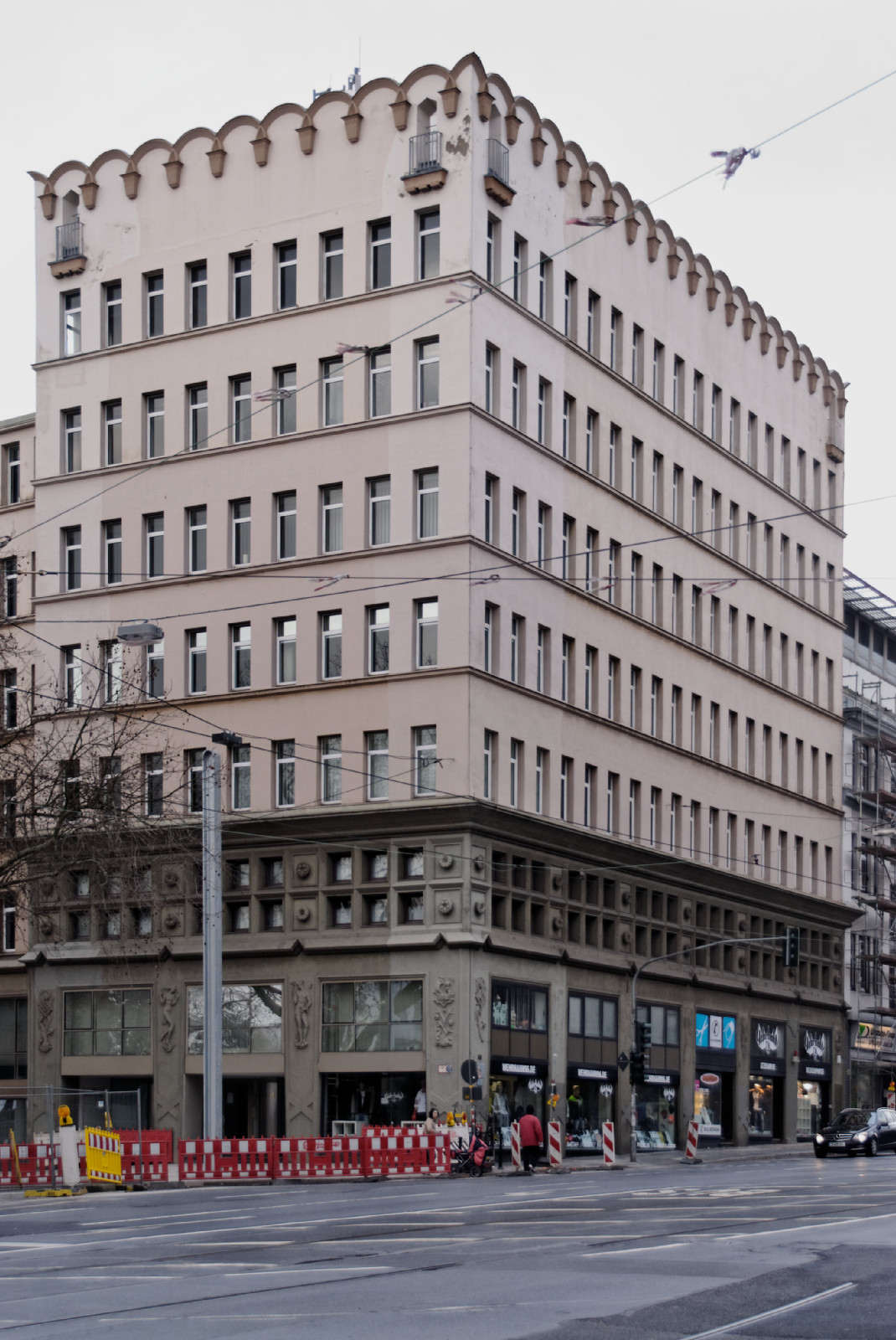 Industriehaus in Düsseldorf-Pempelfort, Germany